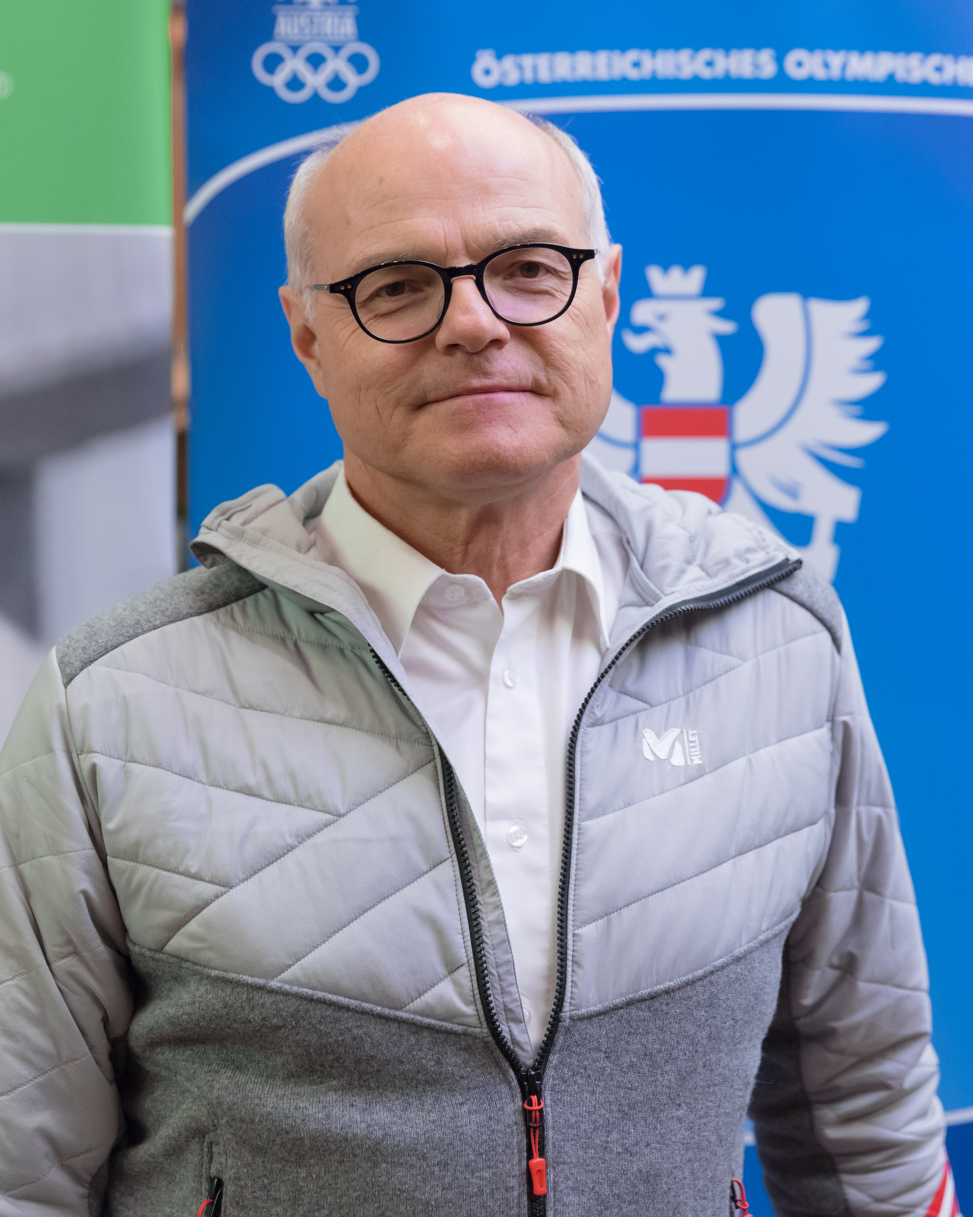 Karl Stoss at the outfitting of the Austrian team for the 2018 Winter Olympics (Hotel Marriott in Vienna, Austria.